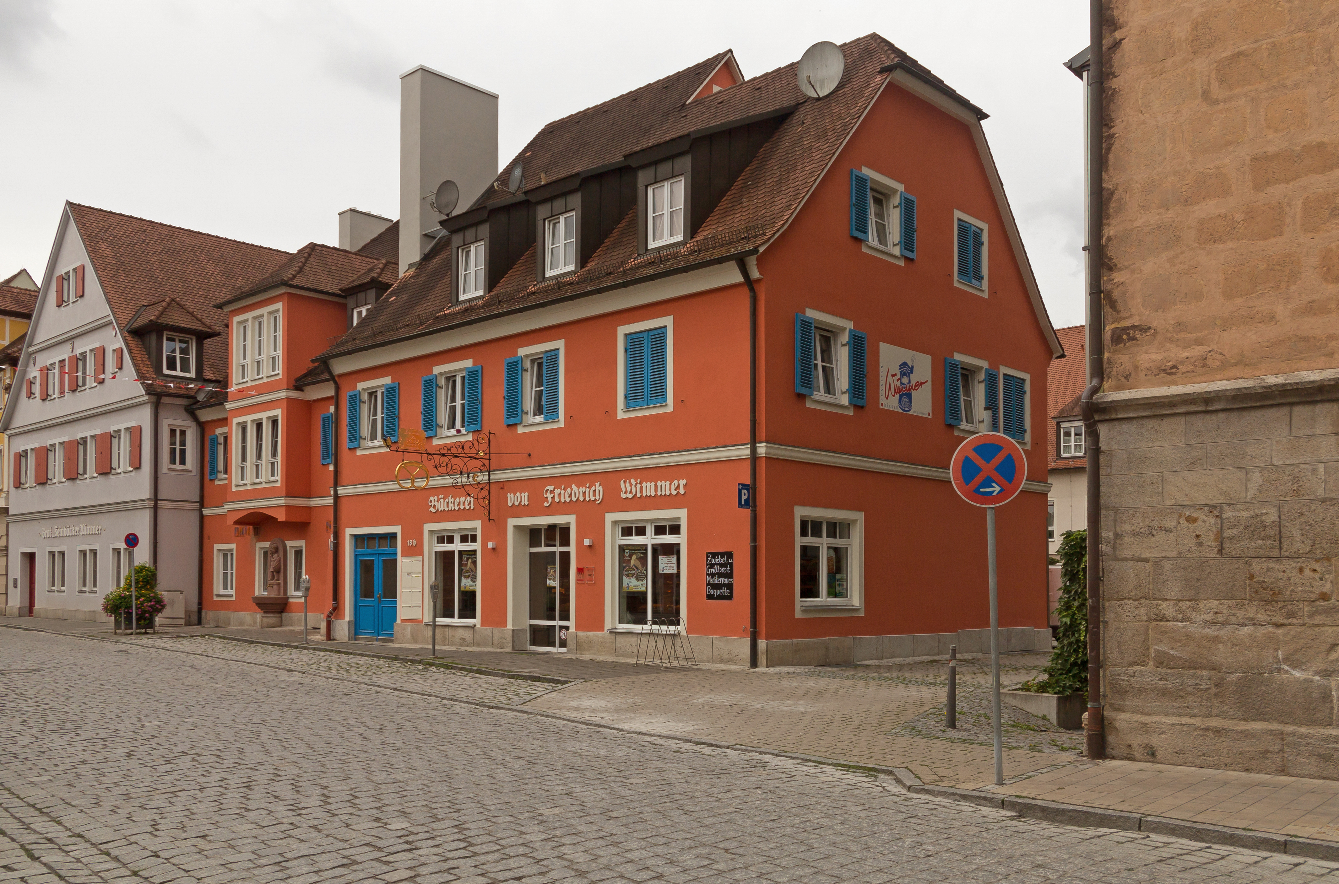 Bad Windsheim, view to a street: die Rothenburger Strasse